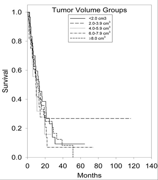 The Kaplan-Meier curves representing the survival outcomes of 275 patients treated for newly diagnosed brain metastases at Cancer Care Northwest and Gamma Knife of Spokane between 1998 and 2008.